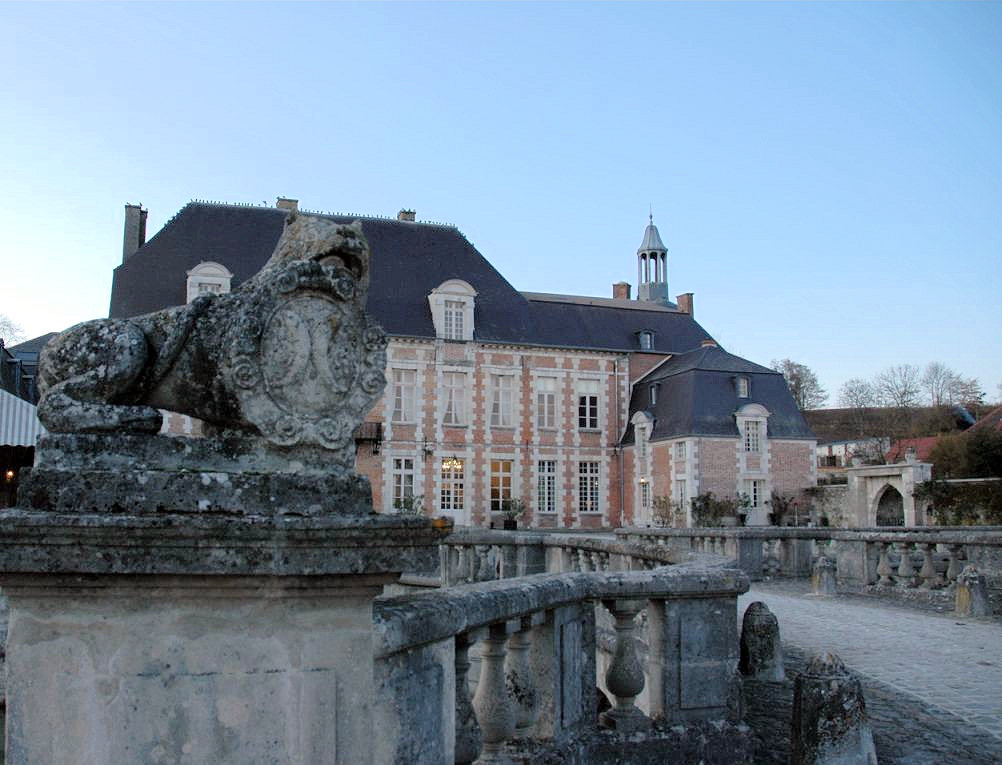 Etoges Castle Main Building Front